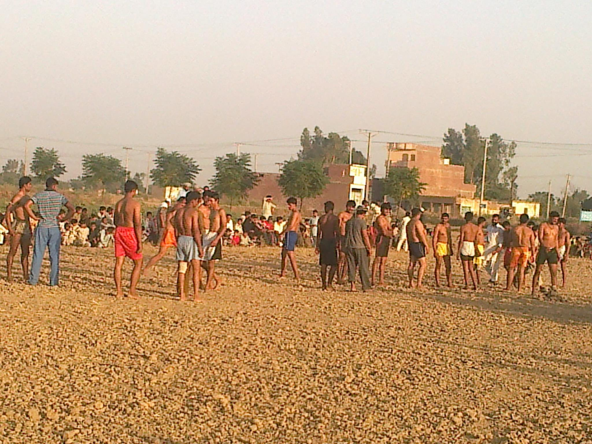 Kabaddi competition in Wadala Sandhuan, Punjab, Pakistan